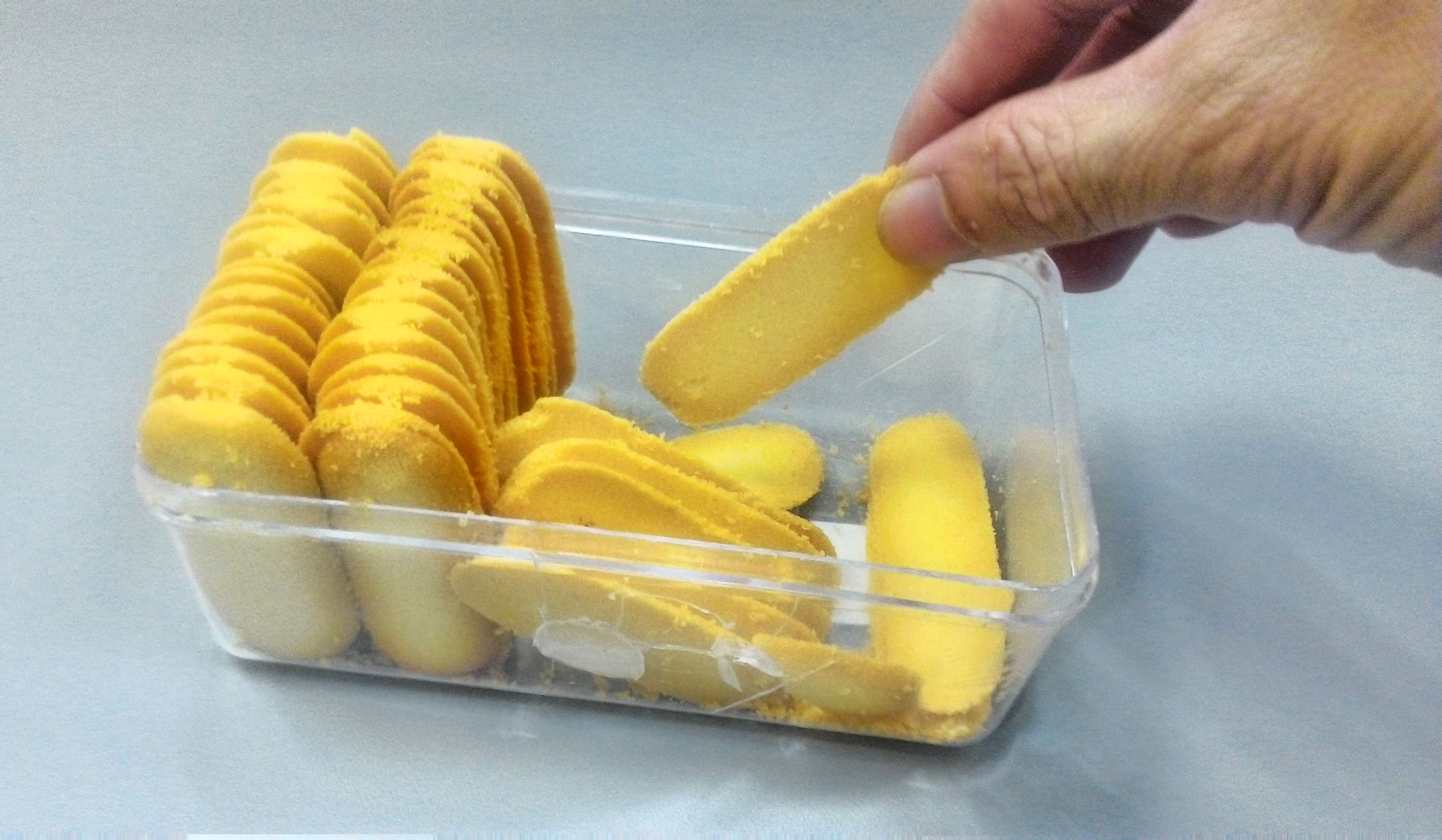 Kue lidah kucing, Indonesian version of popular cat tongue cookie or biscuit, made of wheat flour, egg, margarine, milk and sugar. It is one of Indonesian kue kering (dried cake or cookie), popular during festive Lebaran and Christmas.